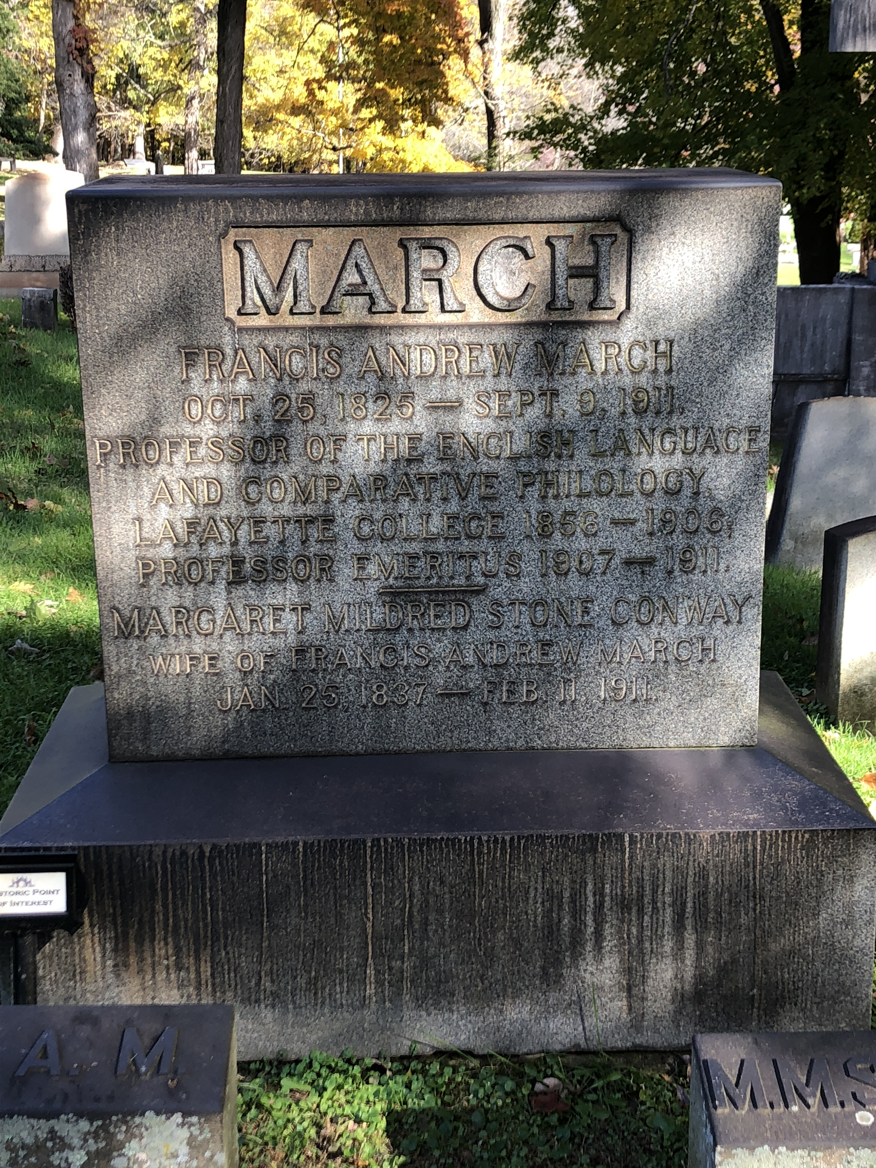 Francis A. March's gravestone in the Easton, PA cemetery